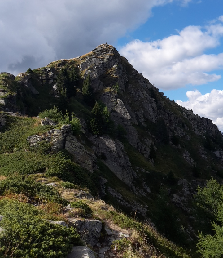 Cogn from southeast (Serravalle/Sobrio/Acquarossa, Ticino, Switzerland)